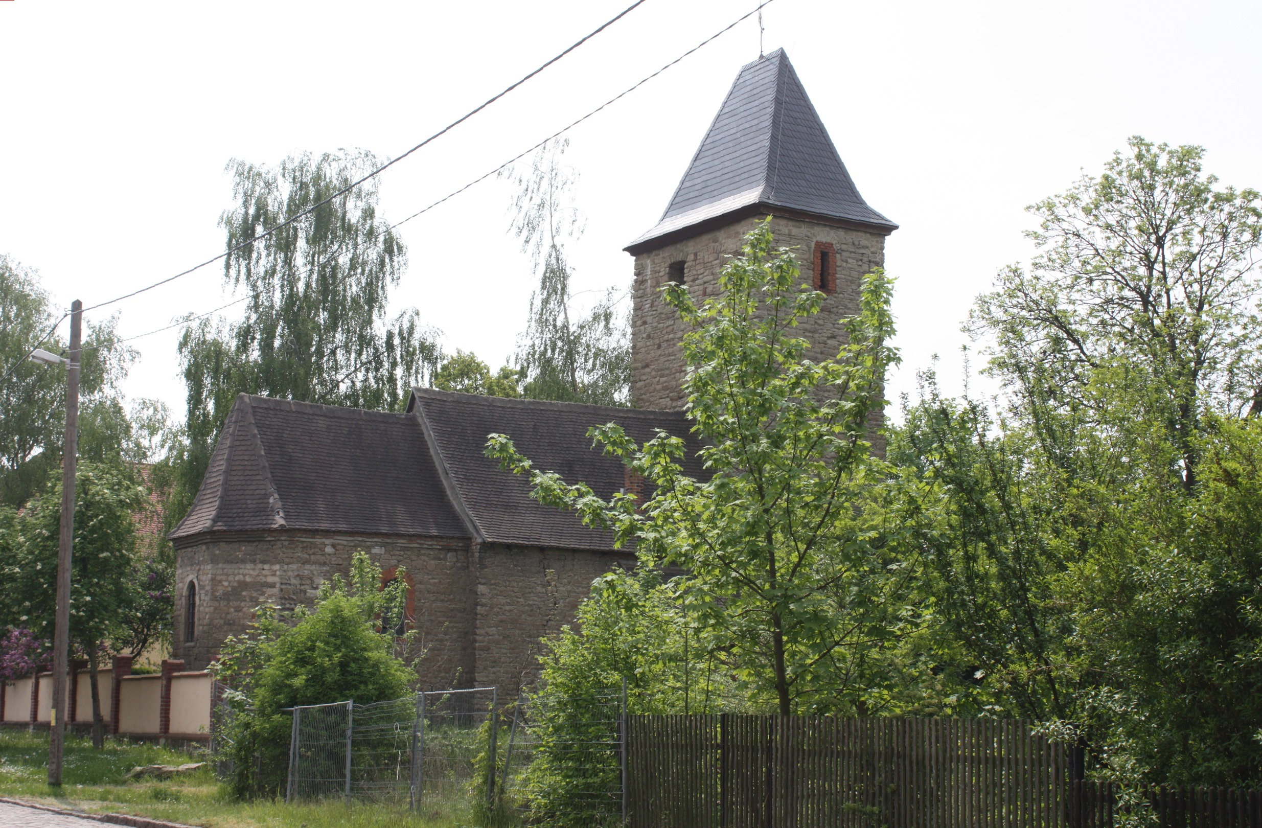 Wölkau (Leuna), the village church